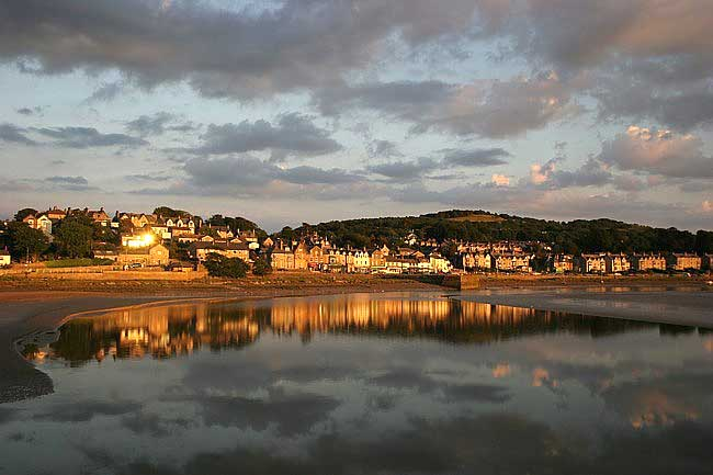 Arnside, Westmorland, over the River Kent